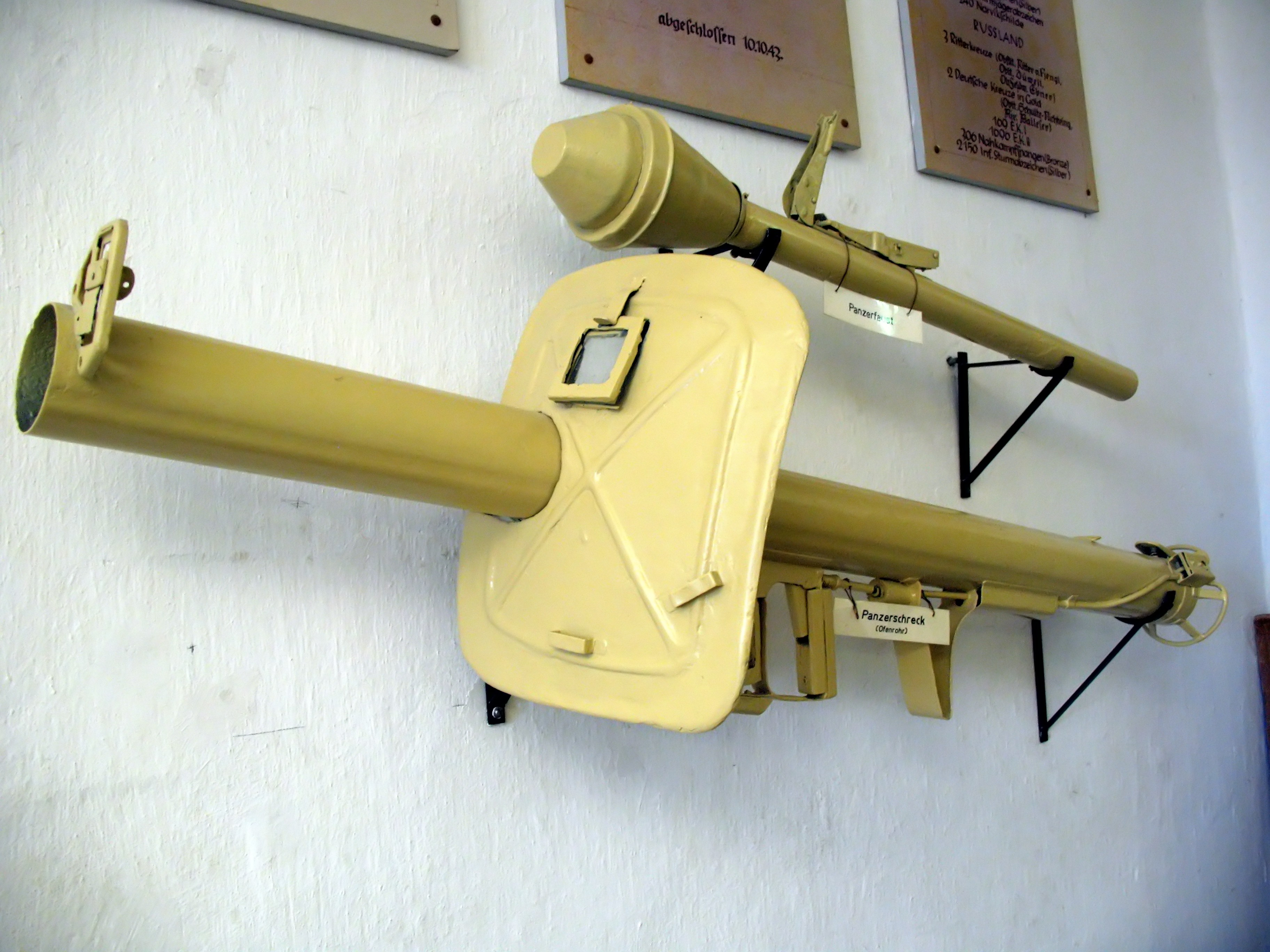 Anti-tank gun and warhead; High Fortress, Salzburg, Austria